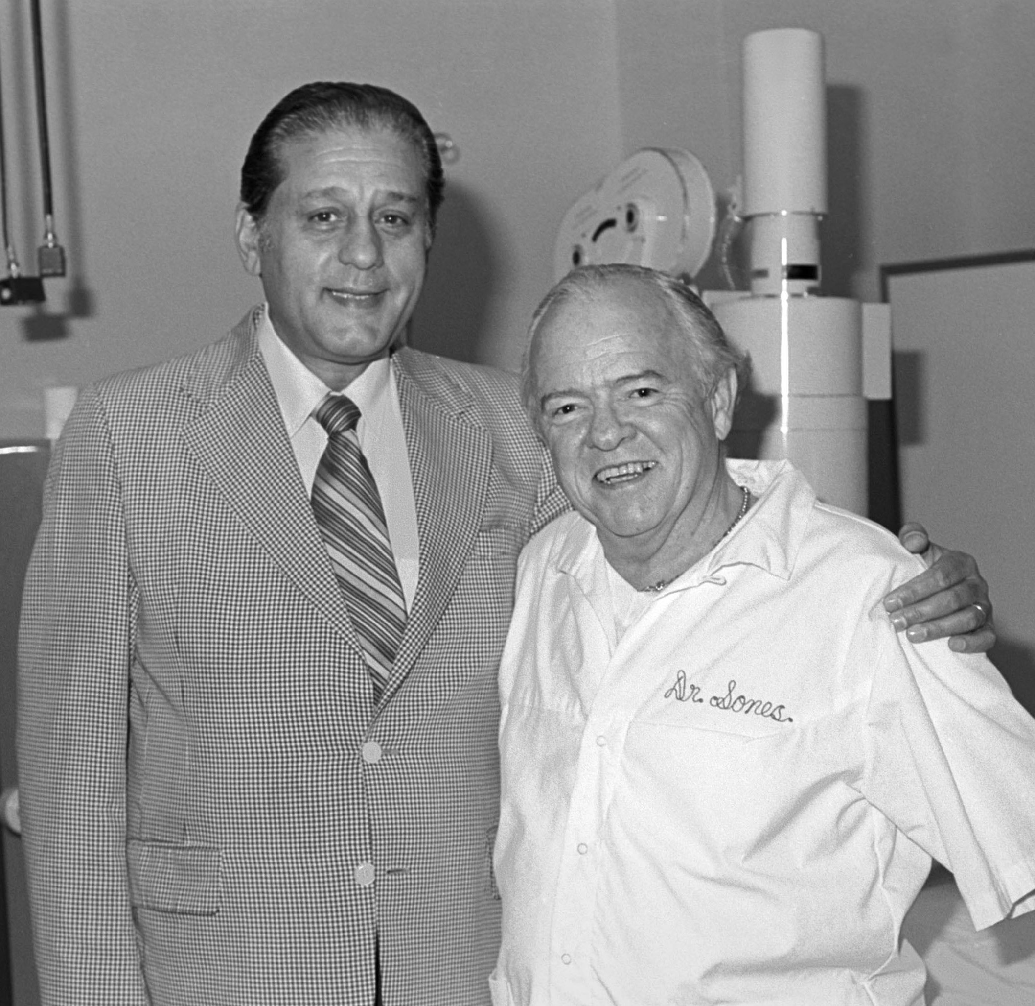 Drs. Rene Favaloro and Mason Sones circa 1970